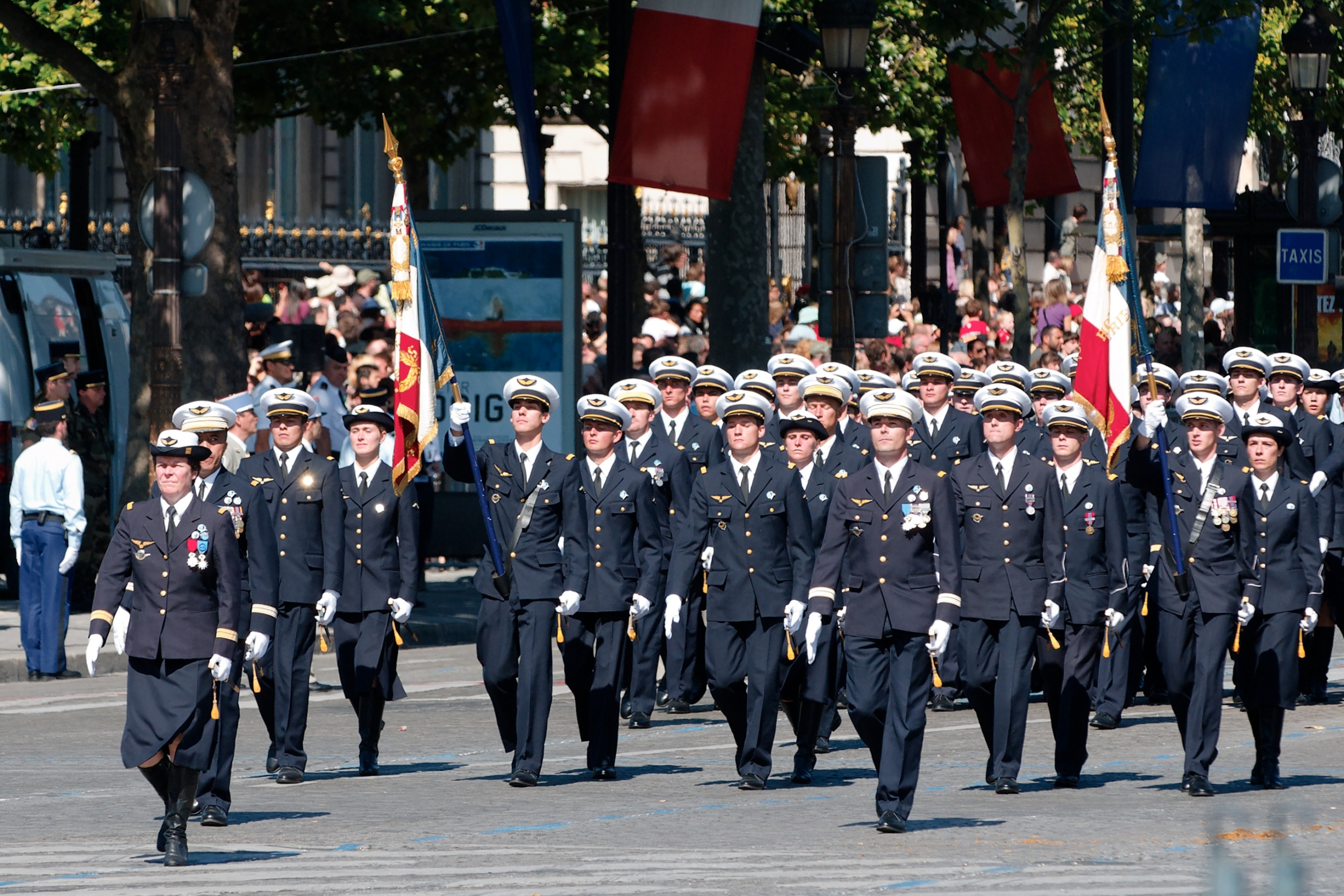 Flag guards of the French Air Force Academy, Bastille Day 2008 military parade on the Champs-Élysées, Paris.